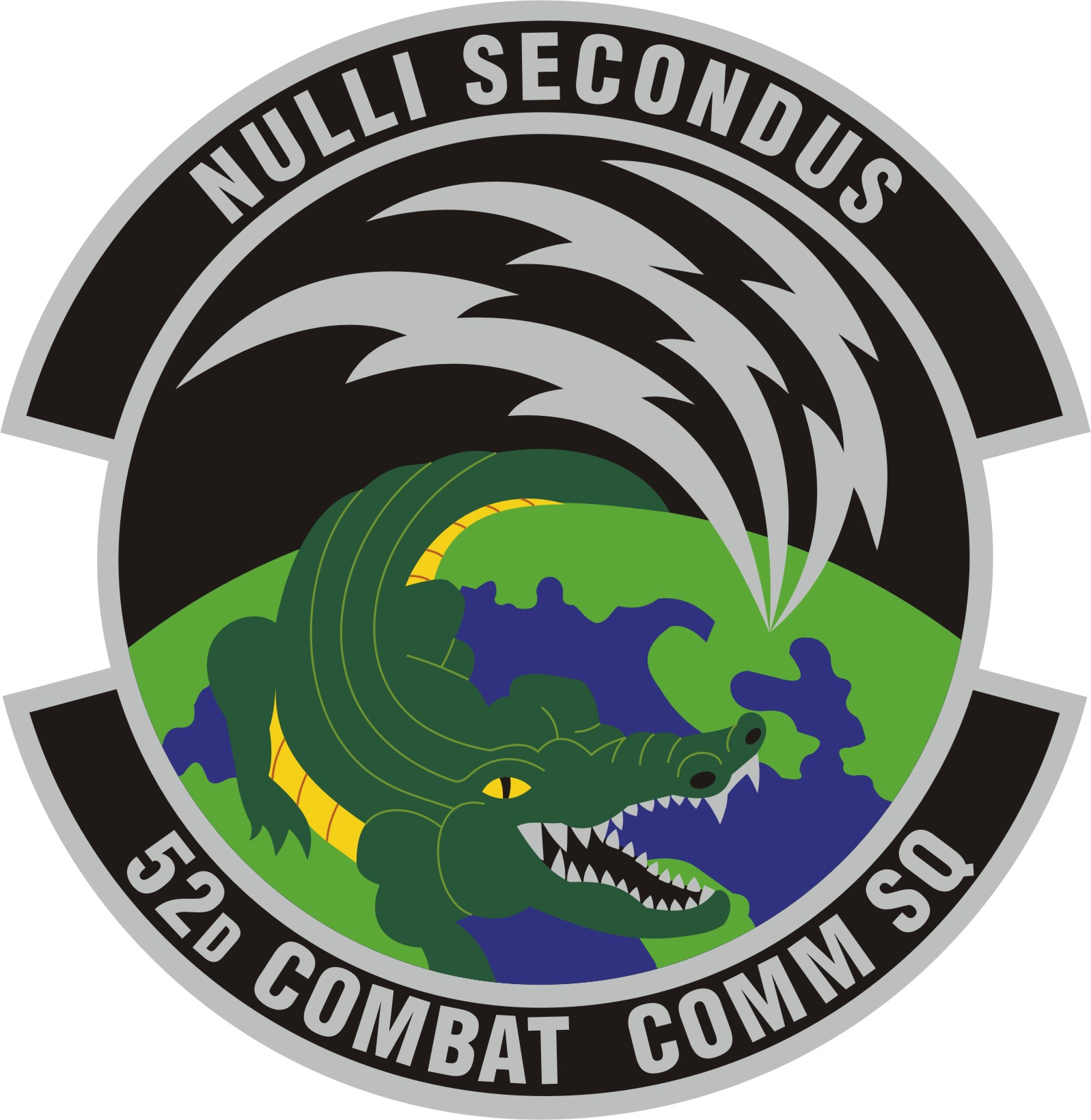 52d Combat Communications Sq emblem